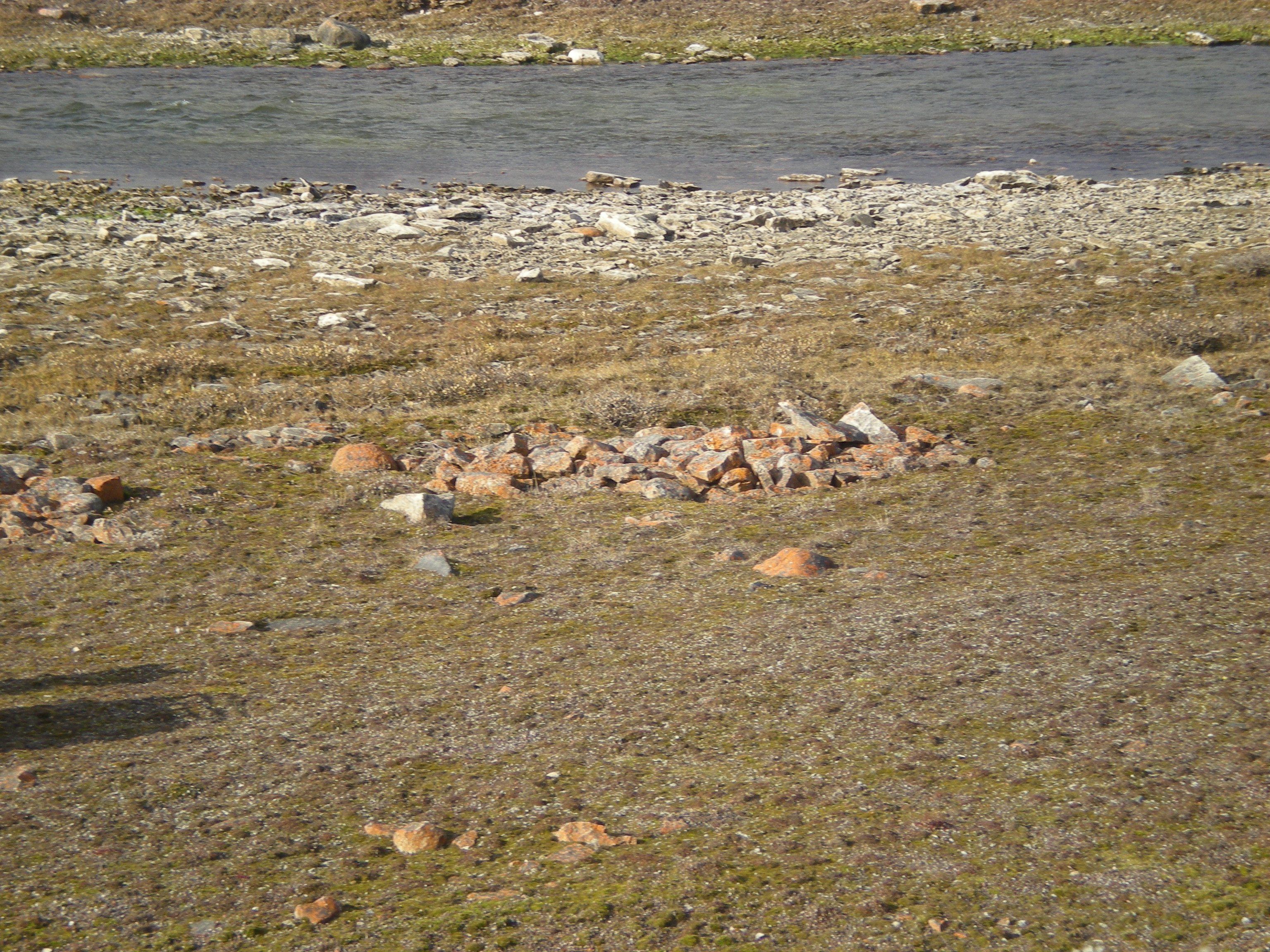 A Thule culture food cache near Cambridge Bay, Nunavut Canada.